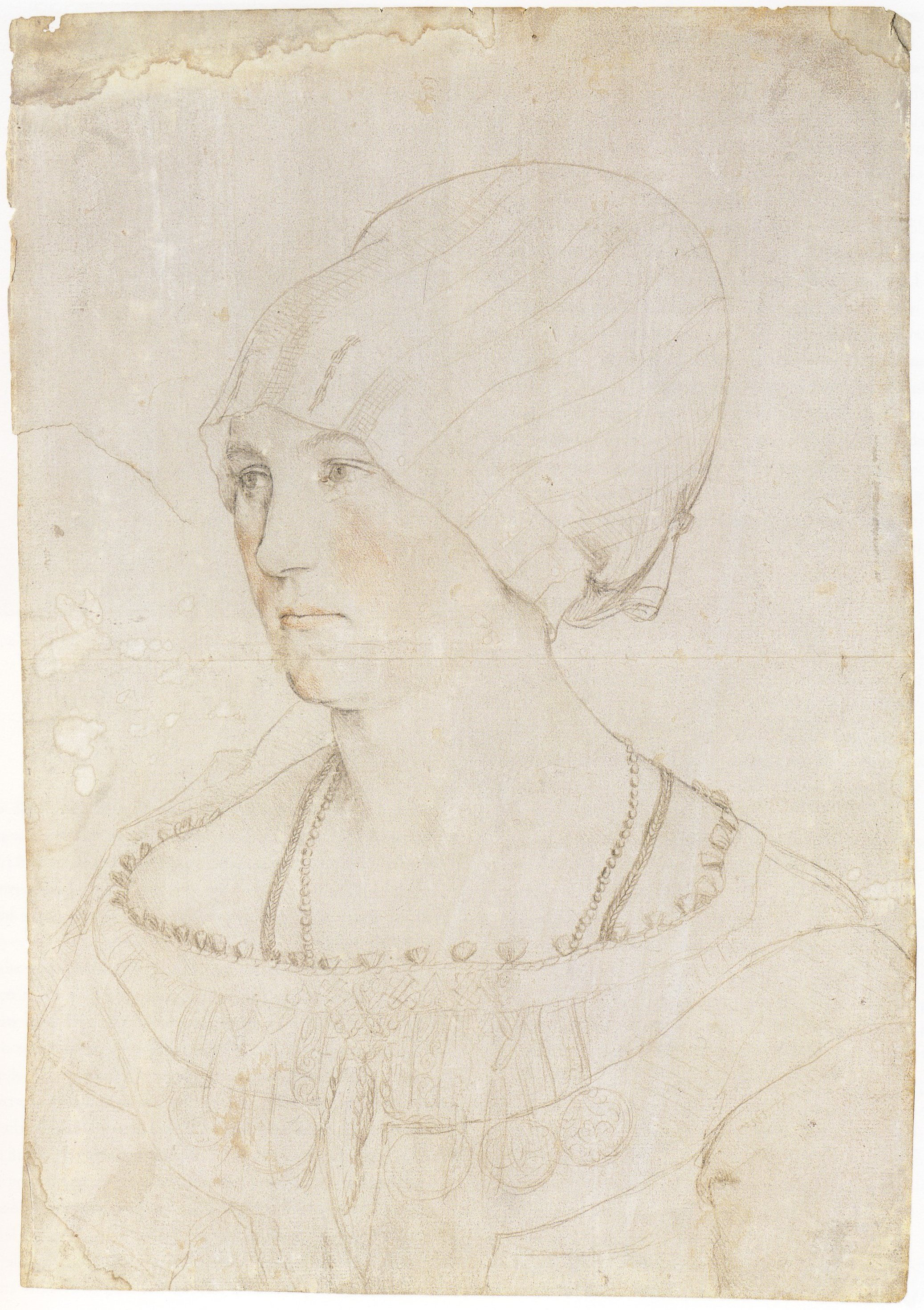 Portrait of Dorothea Meyer, née Kannengiesser. Silverpoint, red chalk, and traces of black pencil on white-coated paper, c. 28.6 (left), 29.3 (right), × 20.1 cm,, Kunstmuseum Basel. Holbein's use of silverpoint in this early drawing follows that of his father, Hans Holbein the Elder, a talented portraitist himself. Although the younger Holbein went on to become a prolific and renowned portraitist in London, he produced relatively few portraits in Basel. Jakob Meyer, a senior official and sometime mayor of Basel, became one of Holbein's most important early patrons, commissioning a double portrait of himself and his wife, Dorothea, for which this is one of the two studies. It is the preparatory drawing for Holbein's oil portrait of Dorothea Meyer. Holbein later painted the work known as the Darmstadt Madonna, which portrays Jakob and Dorothea Meyer with their family and the Madonna and Child. Meyer's first wife, Magdalena Baer (d. 1511), was also included. Holbein drew a second study of Dorothea for the later work, this time in chalk. Reference Stephanie Buck, Hans Holbein, Cologne: Könemann, 1999, ISBN 3829025831, pp. 13–17.)